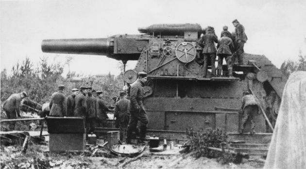 Belgium. Photograph from left side of German 42 cm Gamma Mörser with crew.